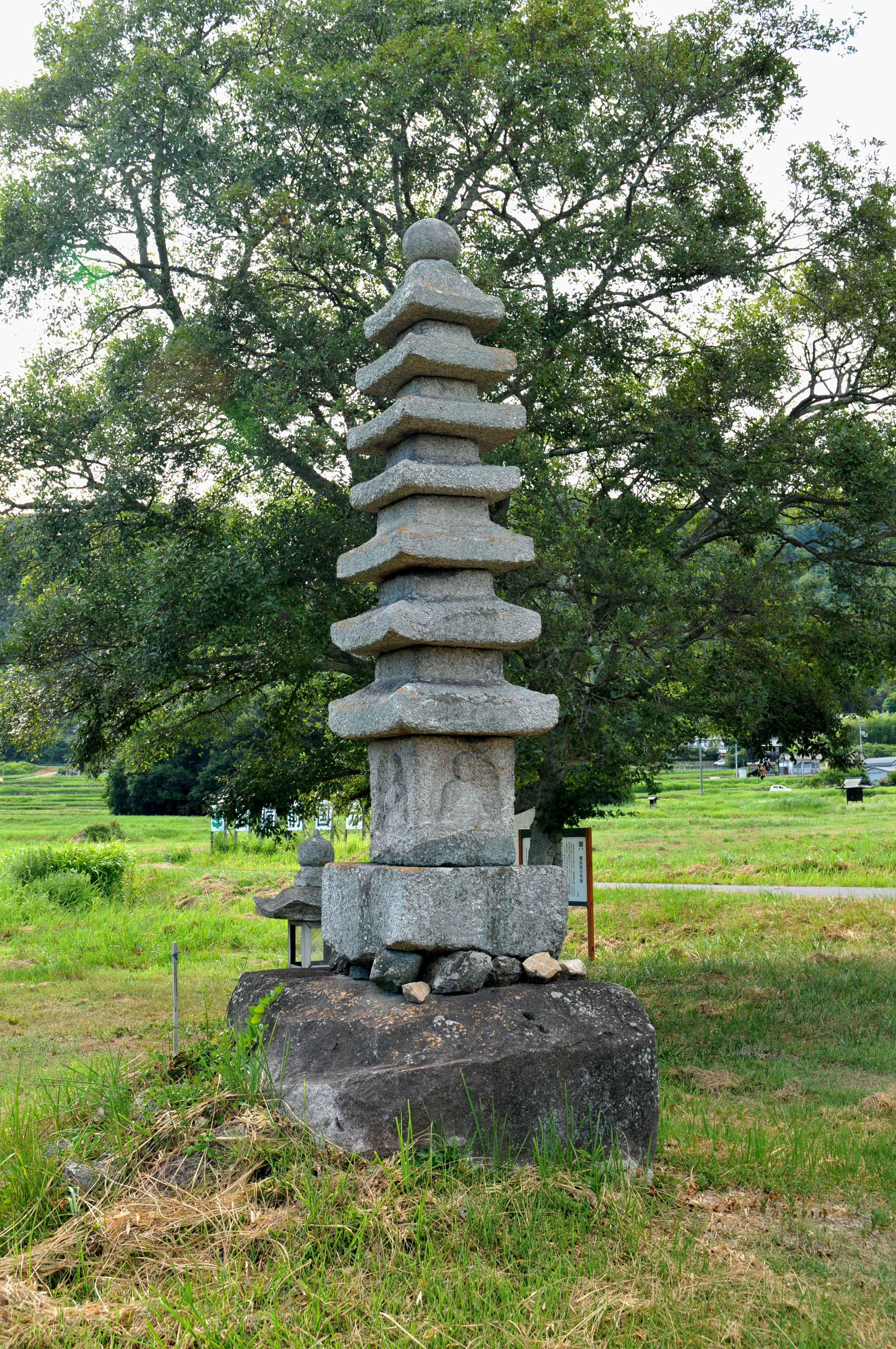 stone pagoda at the Bizen kokubunji ruins